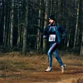 Fun-run in Winter